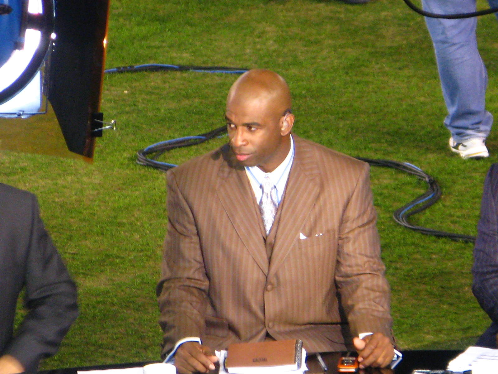 Deion Sanders as an analyst for the NFL Network, 2008. Photo courtesy of Michael De Jesus, via Flickr. License has since been changed, but was under CC-BY when uploaded.